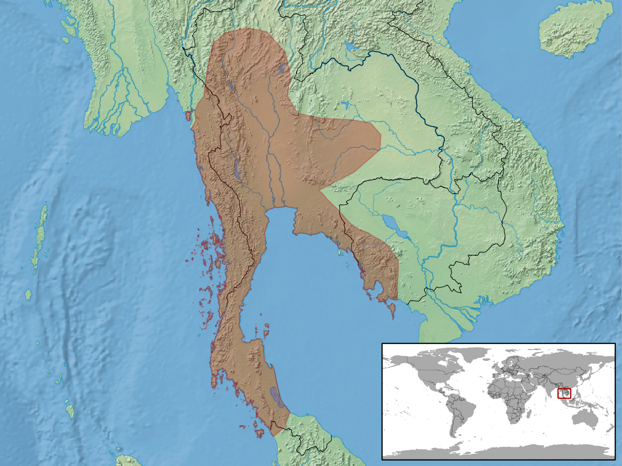 geographic distribution of Draco taeniopterus (Native: Cambodia; Myanmar; Thailand)